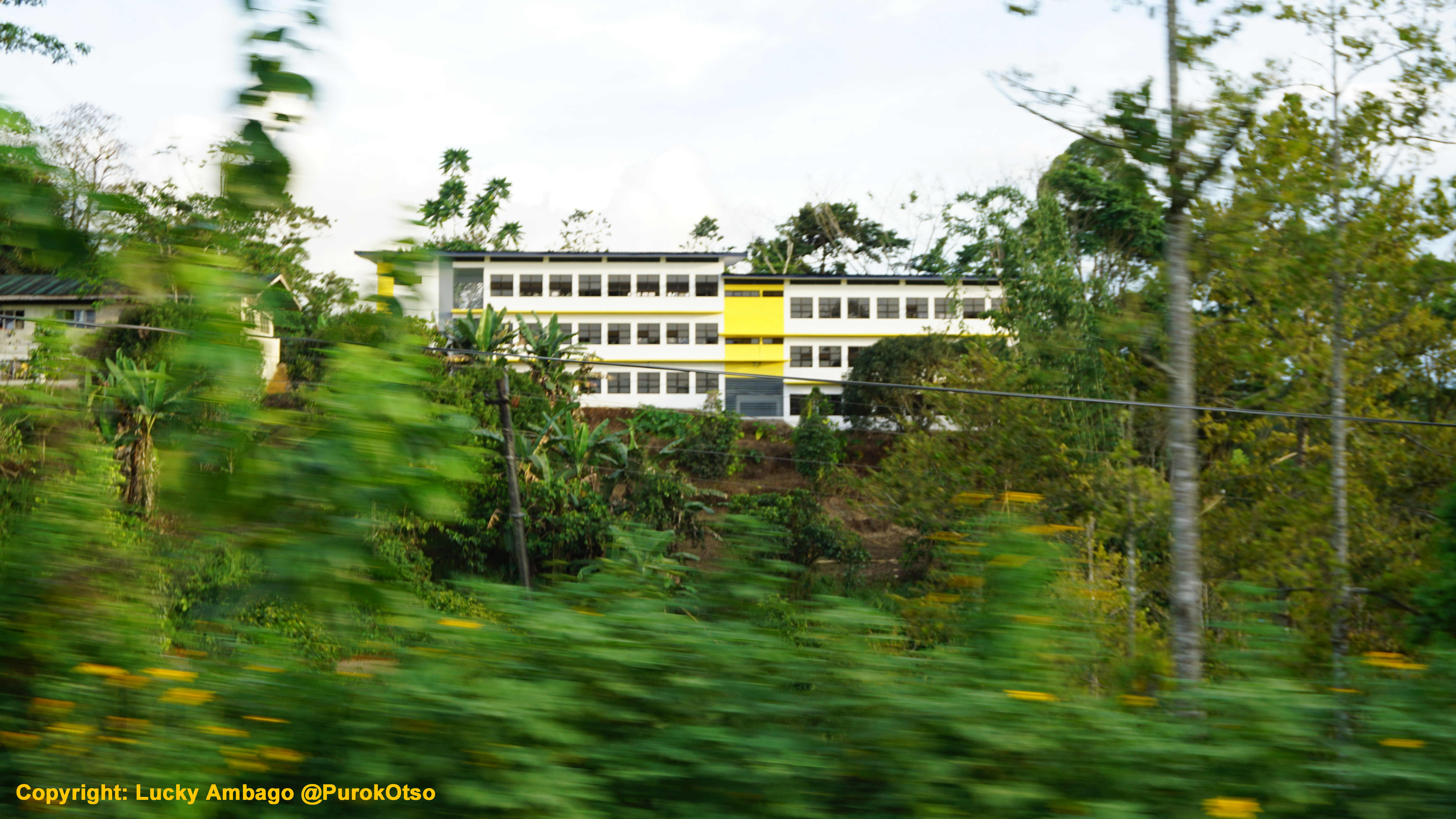 The University of Science and Technology of Southern Philippines has their secondary campus; the Claveria Campus